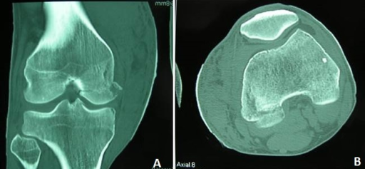 CT scan of right knee had enabled the discovery of a non-displaced fracture of the medial condyle. (A) coronal; (B) axial